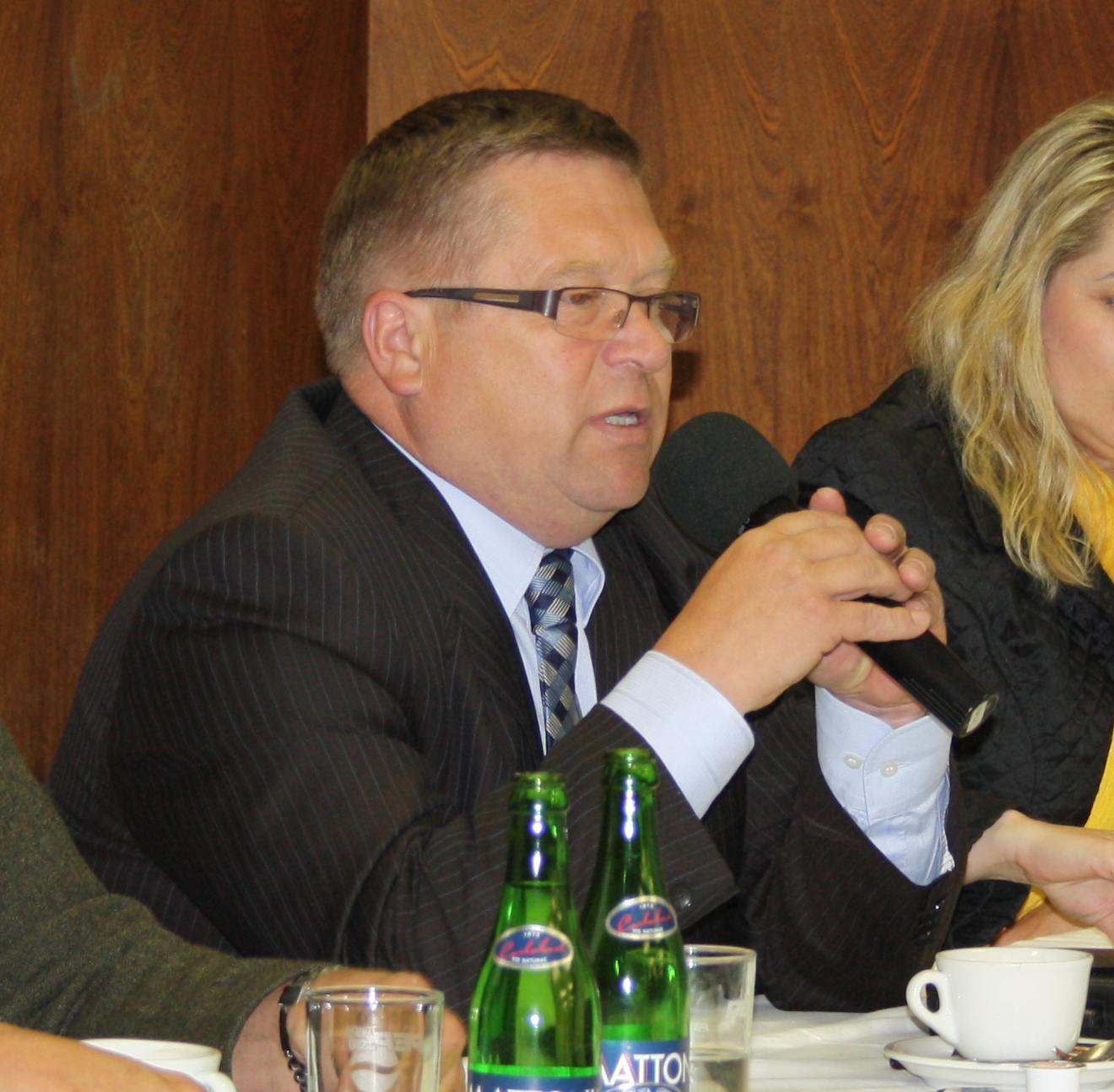 Vítězslav Jonáš portrait croppe.